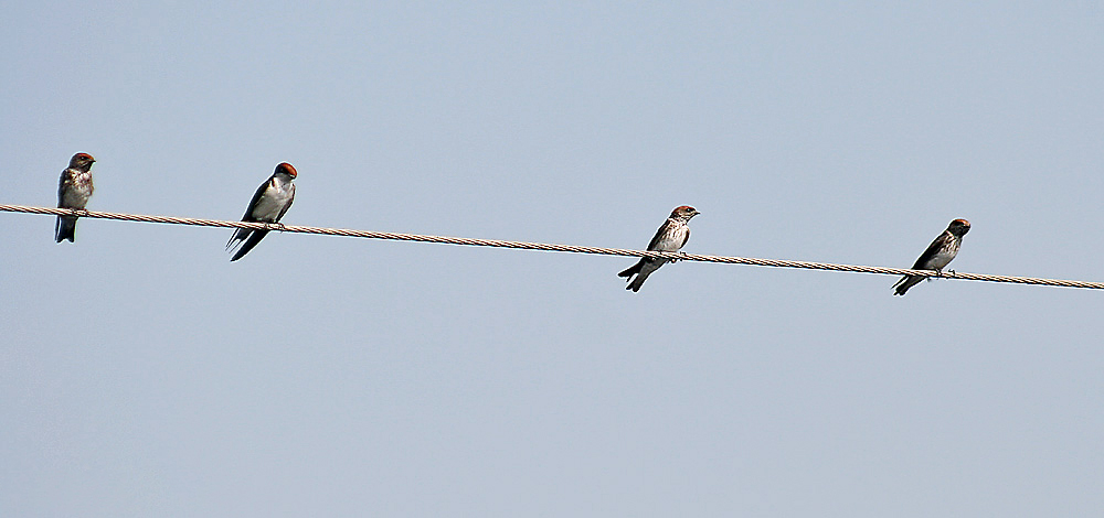 Wire-tailed Swallow (Hirundo smithii) & Streaked-throated Swallow (Petrochelidon fluvicola) near Hodal in Faridabad District of Haryana, India.